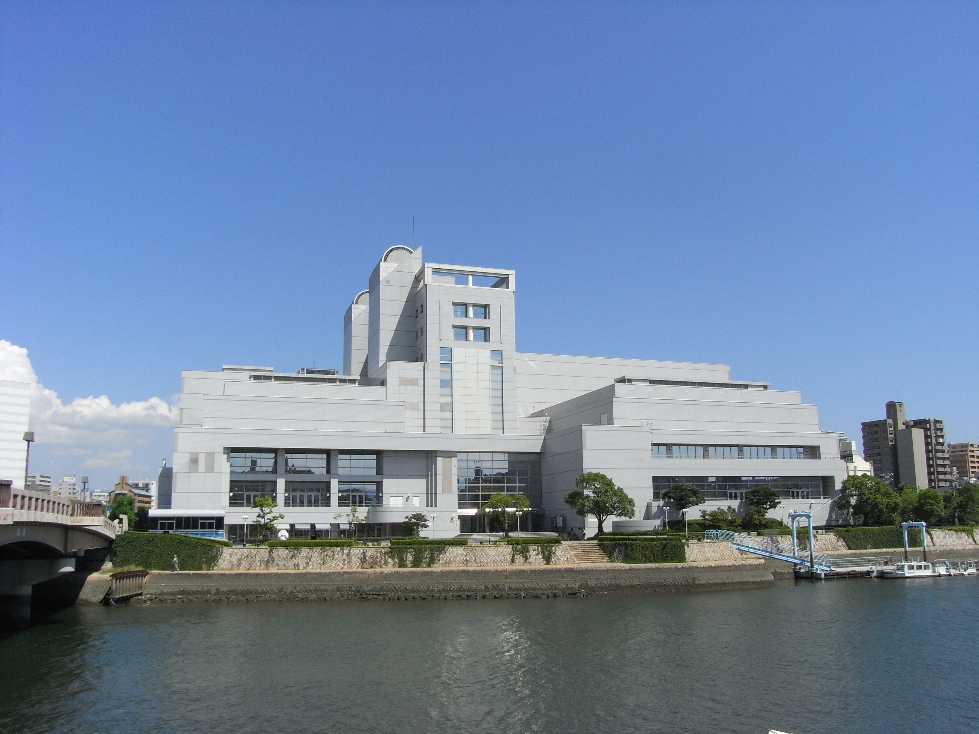 View of the JMS Aster Plaza from the other side of the Ota River as of July 2008.